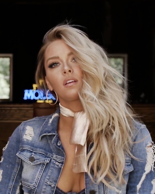 Camille Kostek in a shoot in California on September 10, 2017